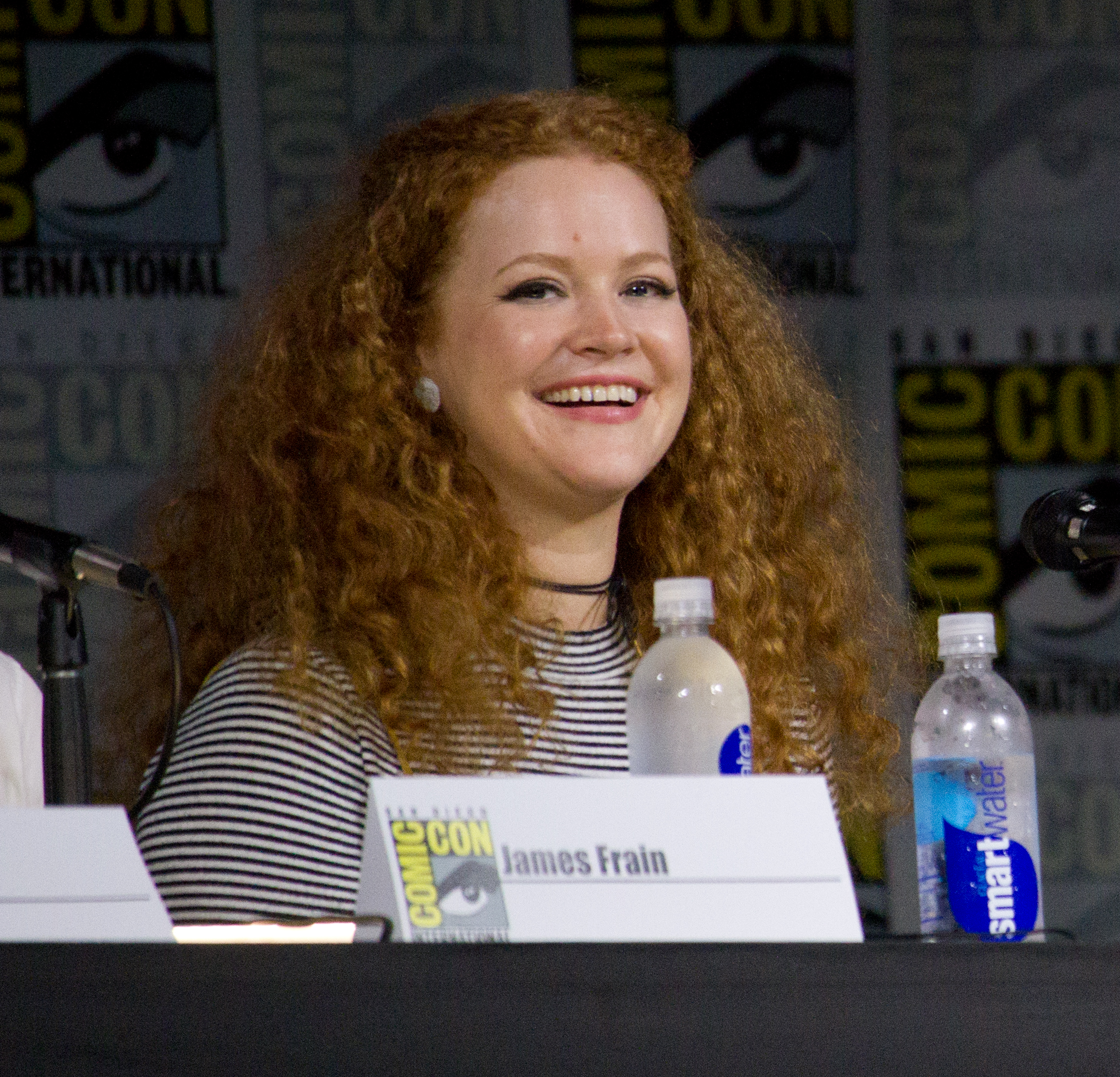 Mary Wiseman at the 2017 San Diego Comic-Con panel for Star Trek: Discovery